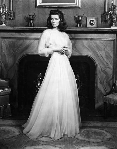 Photograph of Katharine Hepburn in the 1939 stage production The Philadelphia Story Feature story is titled "Philadelphia Story on Clothes" (no author credit) Photo caption reads as follows: Cyclamen pink mousseline de soie seems the perfect thing for la Hepburn—all in a tizzy—to wear as she walks out on her wedding.